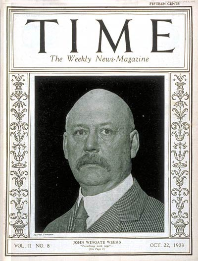 TIME Magazine Cover Featuring John W. Weeks (22 Oct 1923)